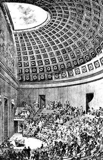 Anatomy theatre in the École de Chirurgie (School of Surgery), Paris